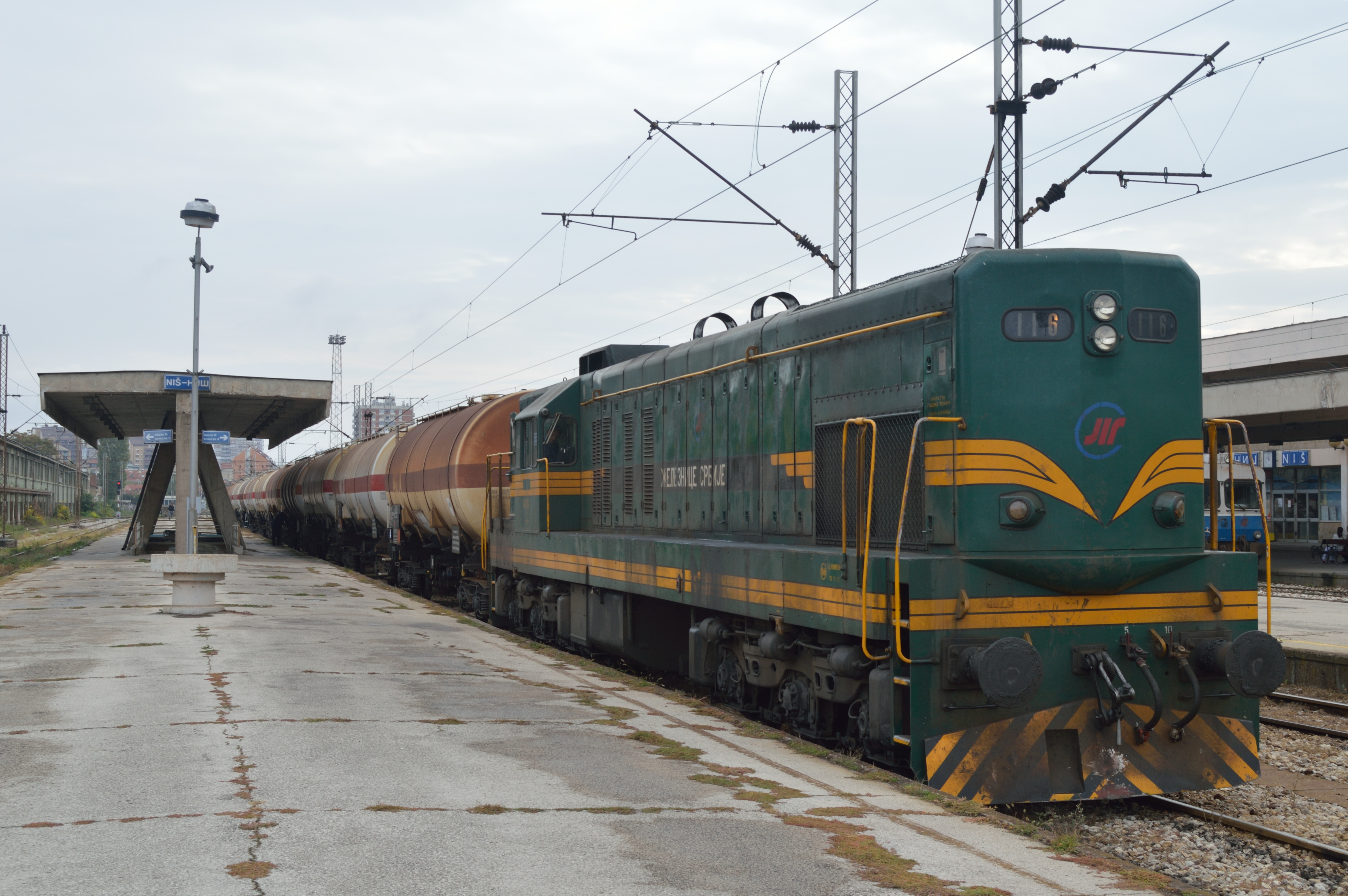 Balkans Rail Trip, Autumn 2013 - Day Five Class 661s are still to be found in Serbia being part of the large fleet of General Motors built for the Yugoslavian Railways during the 1960s and 1970s. Nowadays the allocation acquired by ŽS in Serbia has been whittled down due to cutbacks in services and lack of funding to keep the fleet maintained. Most are kept back for freight with an allocation based here at Niš. At the time of writing (October 2013) passenger work for the class has been reduced to one train each way per day on the non-electrified line from Niš to Dimitrovgrad on the Bulgarian border. Seen in one of the platforms at Niš station on 27 September 2013, 661.116 is on a train of tanks.